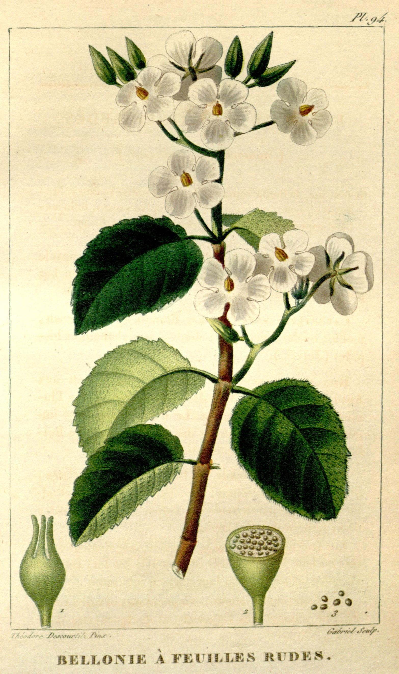 t t -I ^ J^,\/t\f/fy . /., , . ^J»ïV-/.-/ -//«j^ BEI.LO.ME ÀFKI ll.liKS RUDKS.